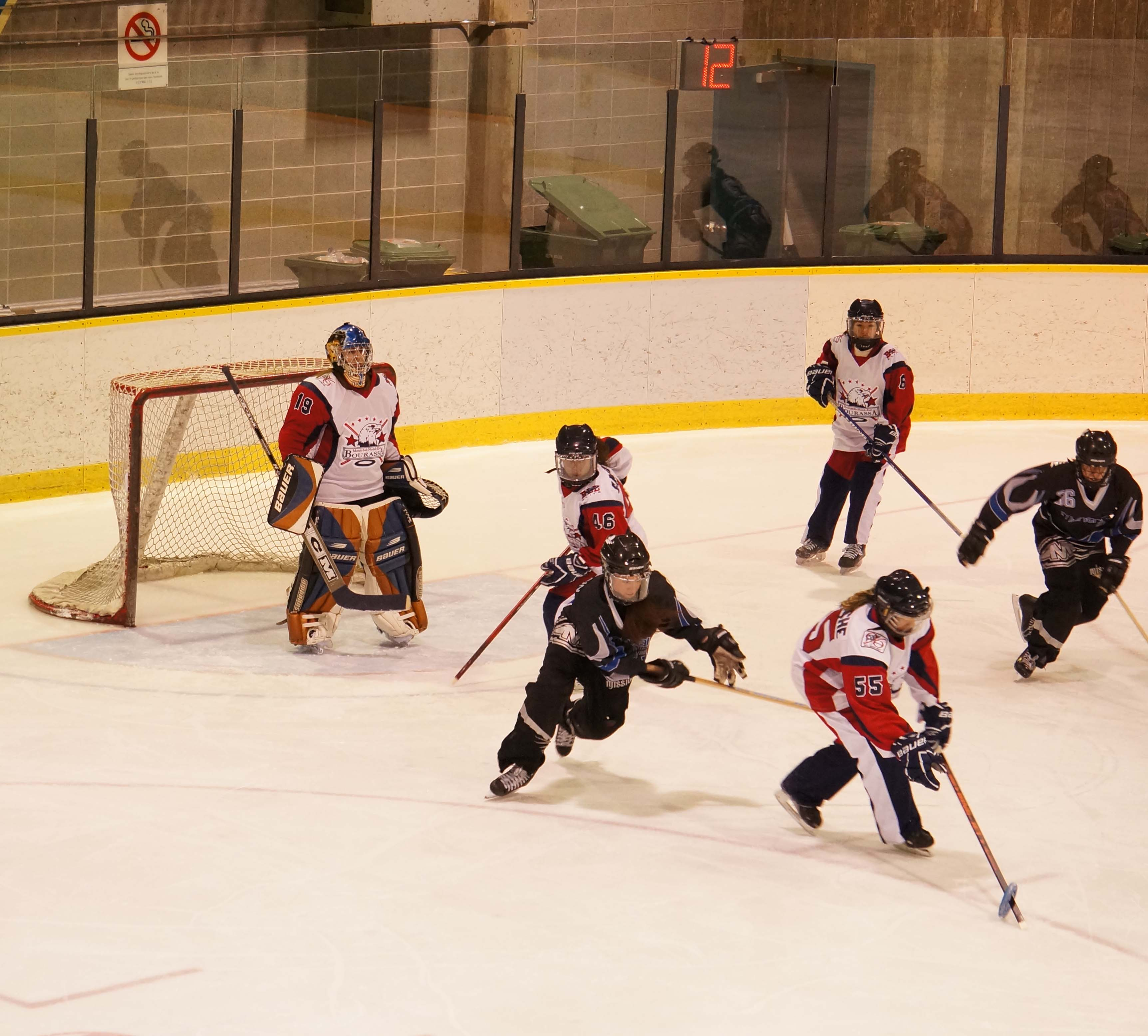 Ringette